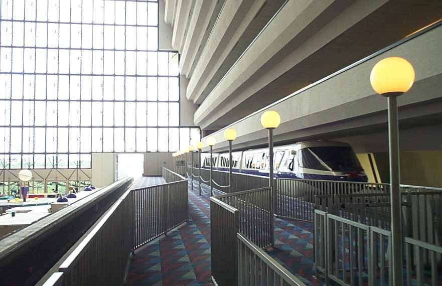 A photo I took of the monorail at Disney's Contemporary Resort. June 20, 2005.